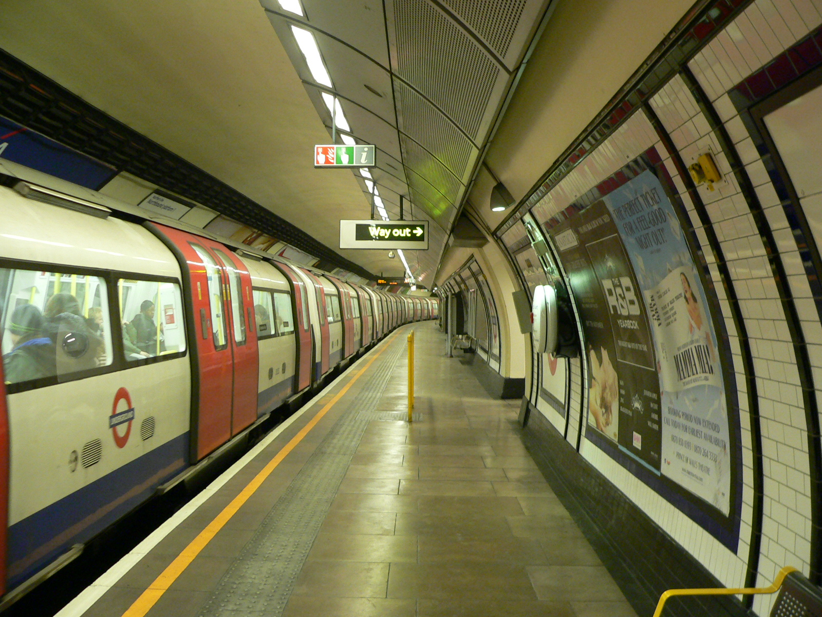 The northbound Northern Line platform at Borough station.